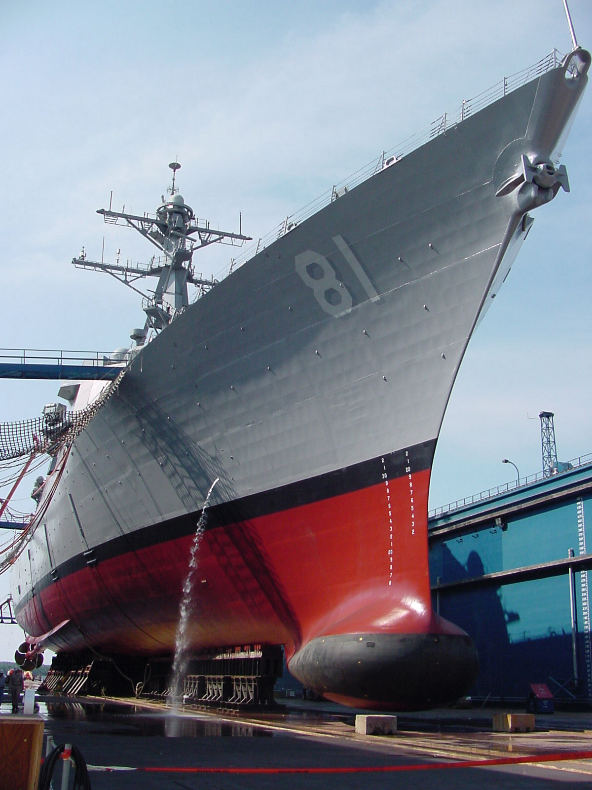 Aboard USS Winston S. Churchill (DDG 81) Aug. 5, 2002 -- The bow of the Winston S. Churchill looms over the dry dock at Bath Iron Works in Bath, Maine. The ship's crew and local shipyard workers are nearing the end of the ship’s Post Shakedown Availability (PSA), a $25 million upgrade to the ship’s equipment, warfare systems, and living quarters. After being floated from the dry dock, the destroyer will receive the remainder of the upgrades pier side before departing for her homeport of Norfolk, Va., and becoming part of the USS Theodore Roosevelt battlegroup. U.S. Navy photo by Intelligence Specialist 1st Class Holly Hogan. (RELEASED)